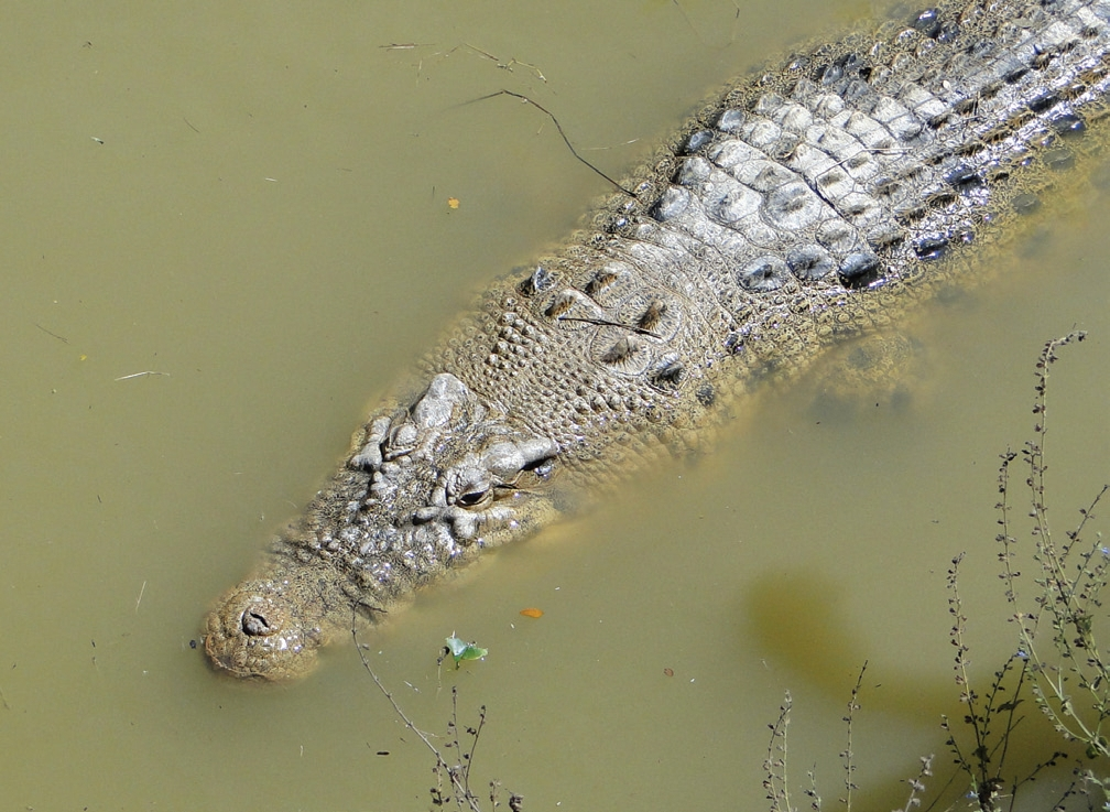 Crocodylus porosus. Captive specimen in an enclosure in Aileu, Aileu District.